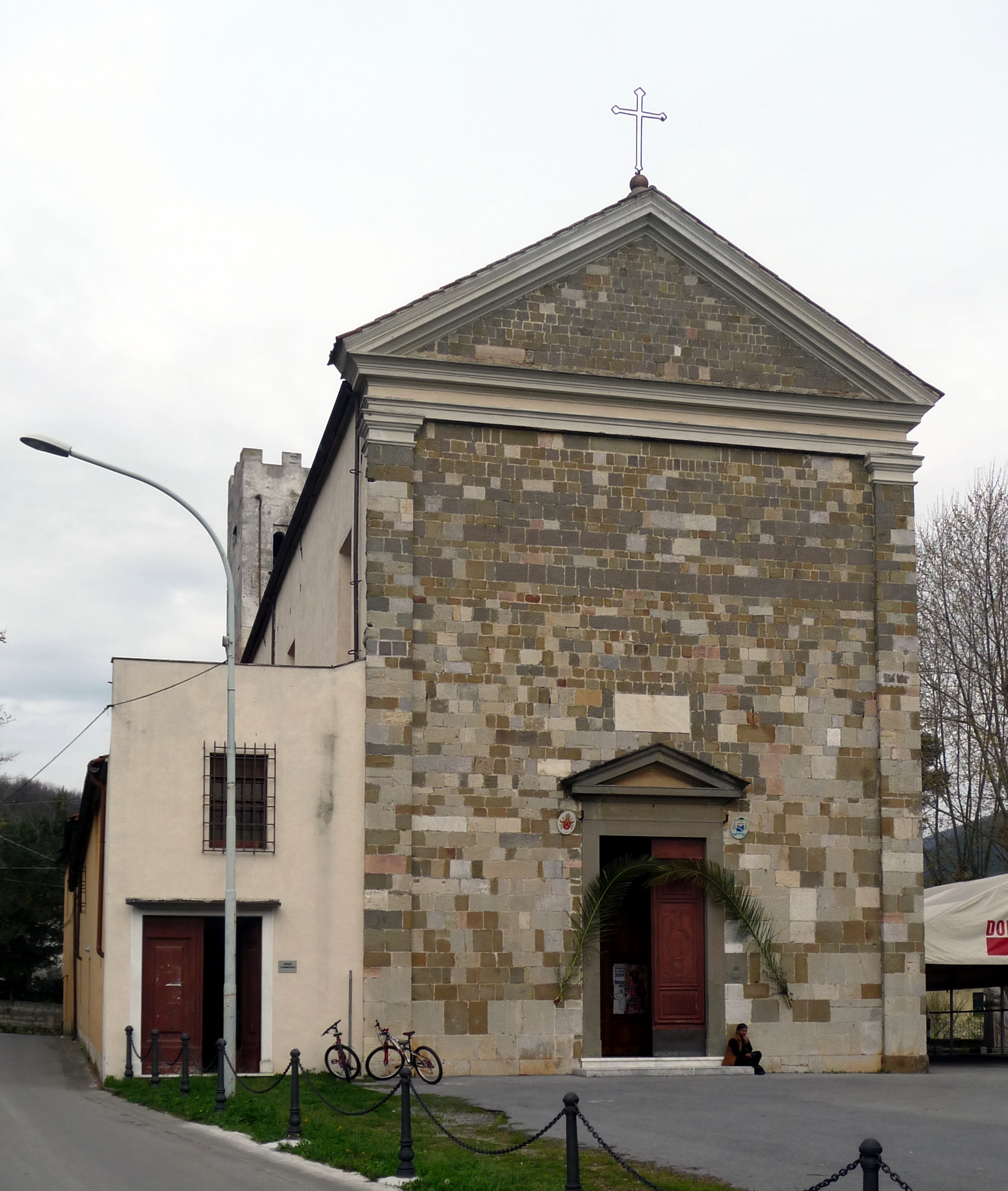 Chiesa di San Maurizio, Filettole, Vecchiano, Province Pisa, Tuscany, Italy